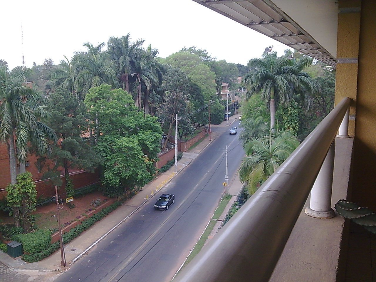 the eyesight of España avenue from Manora condo complex